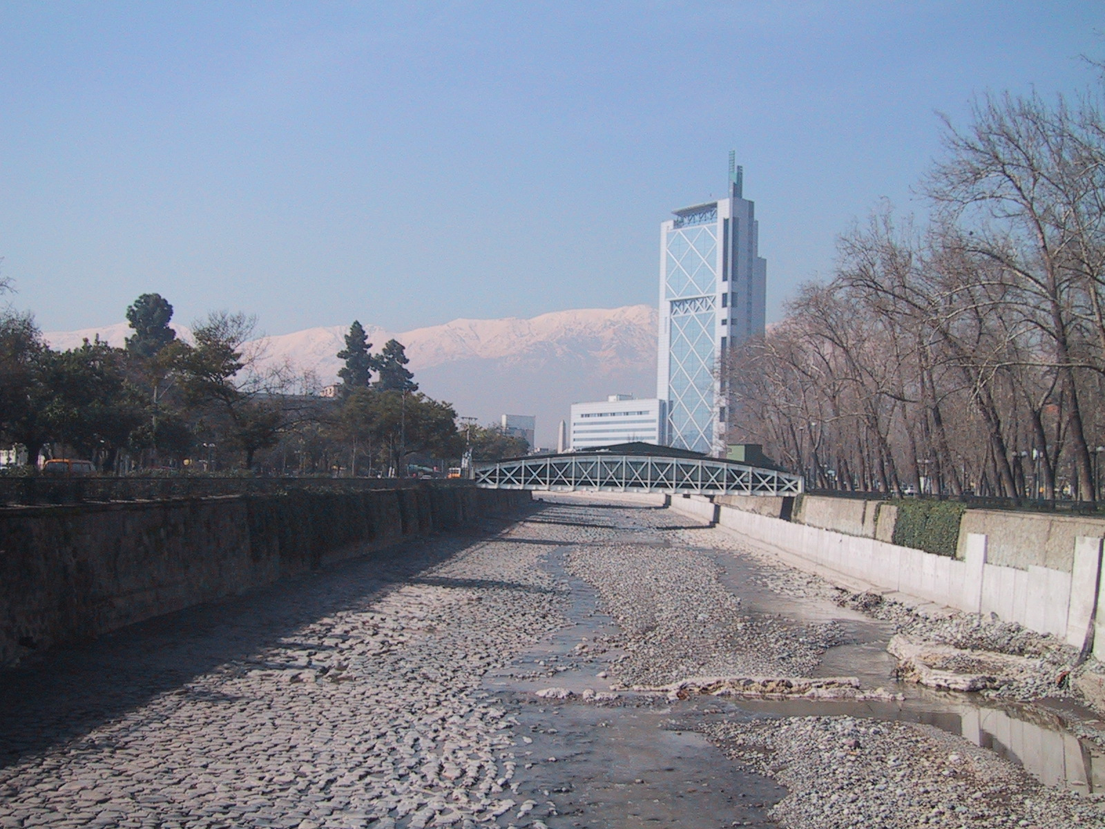 Santiago, Chile and the cell phone building.